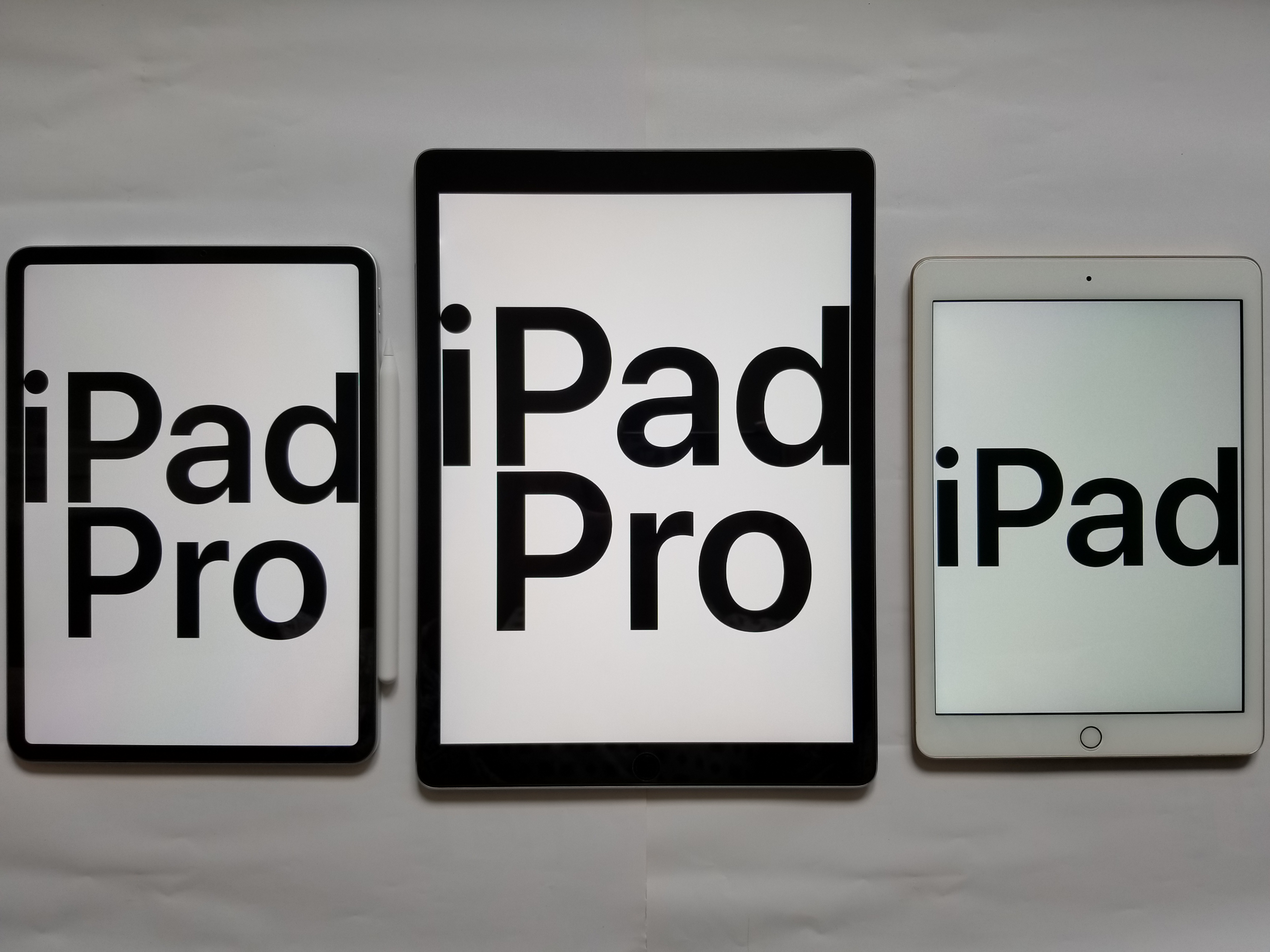 iPad 9.7″ (gold) iPad Pro 12.9″ (space gray) iPad Pro 11″ (silver)